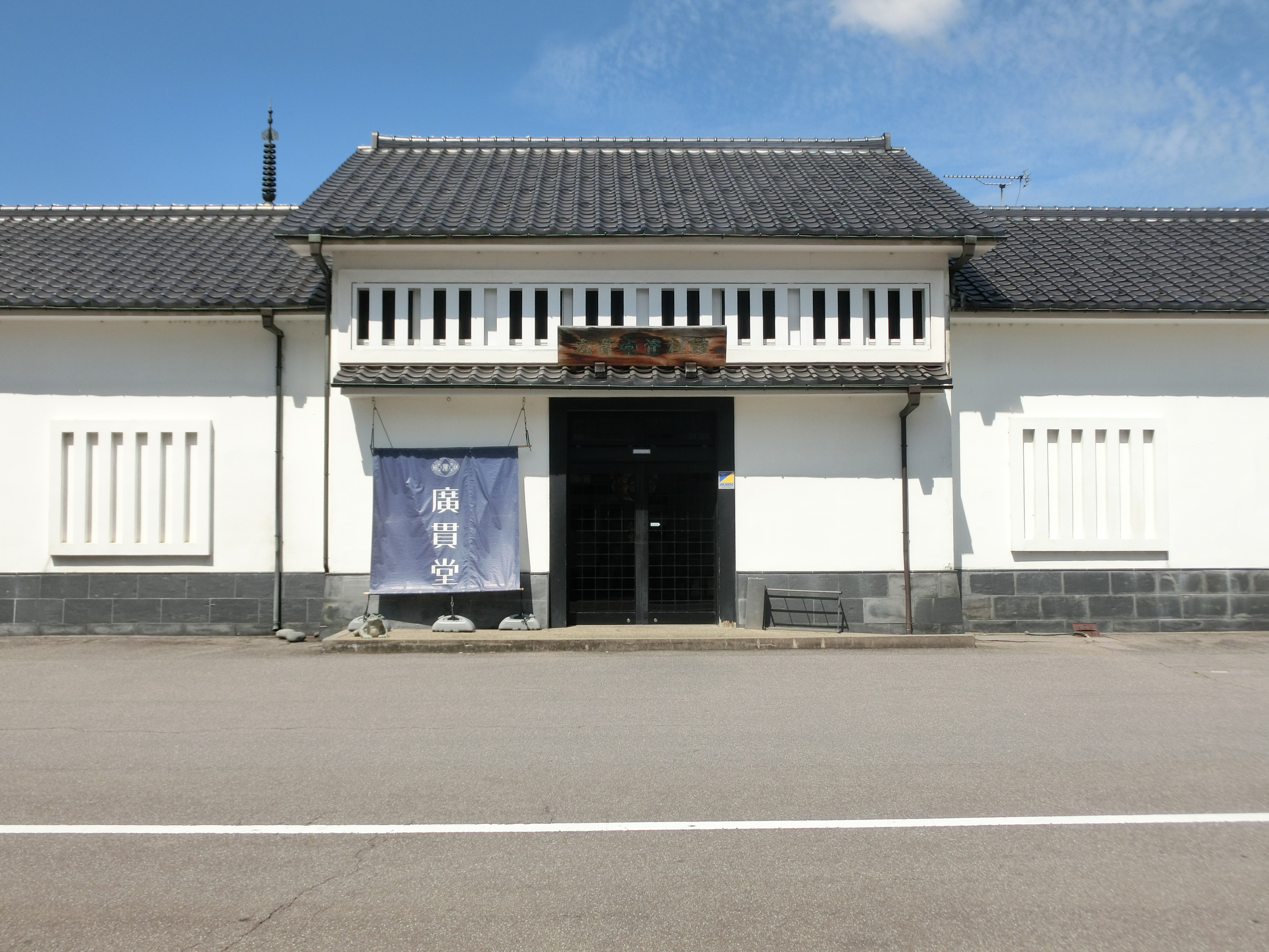 Kokando Museum